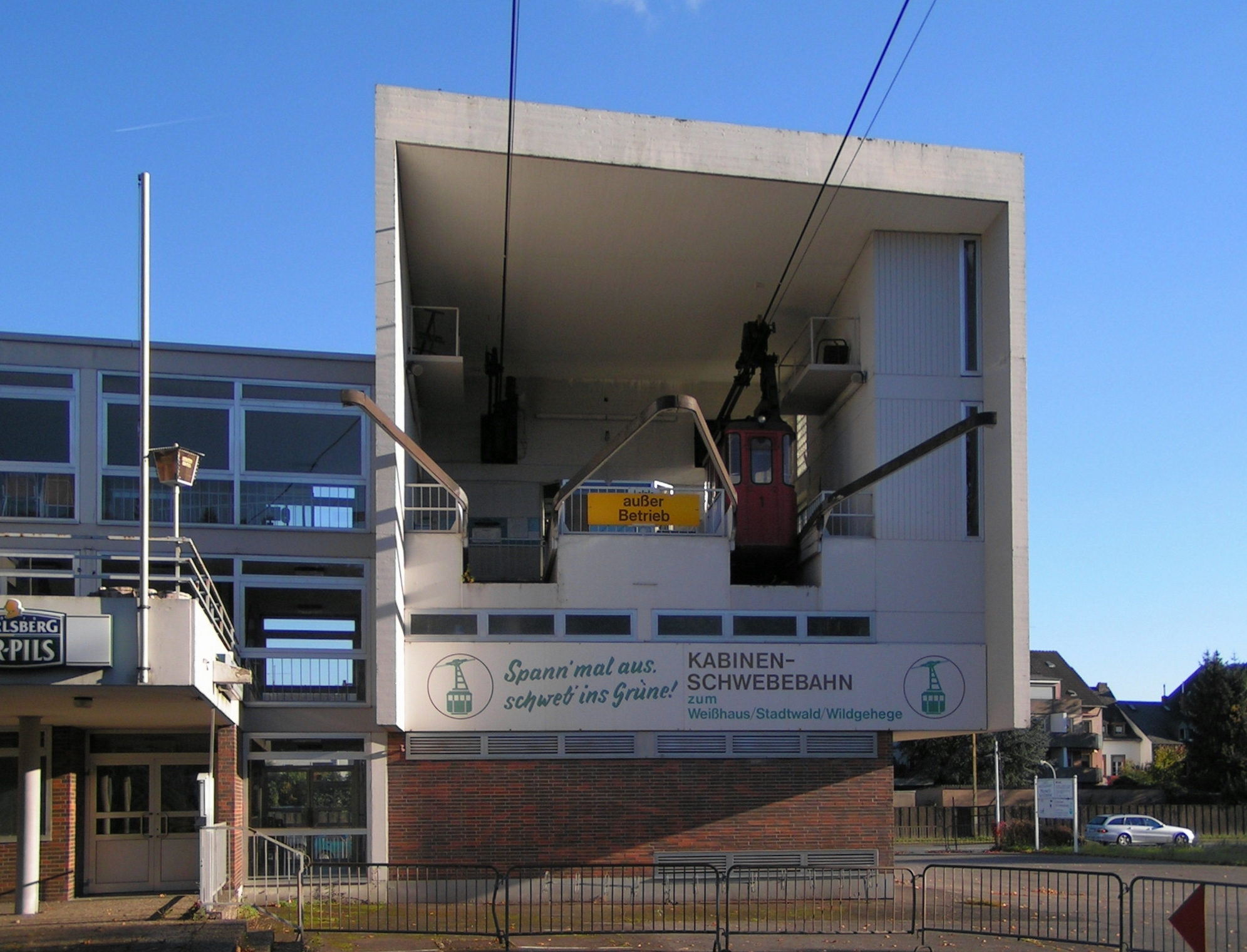 Kabinenbahn, Trier, Germany